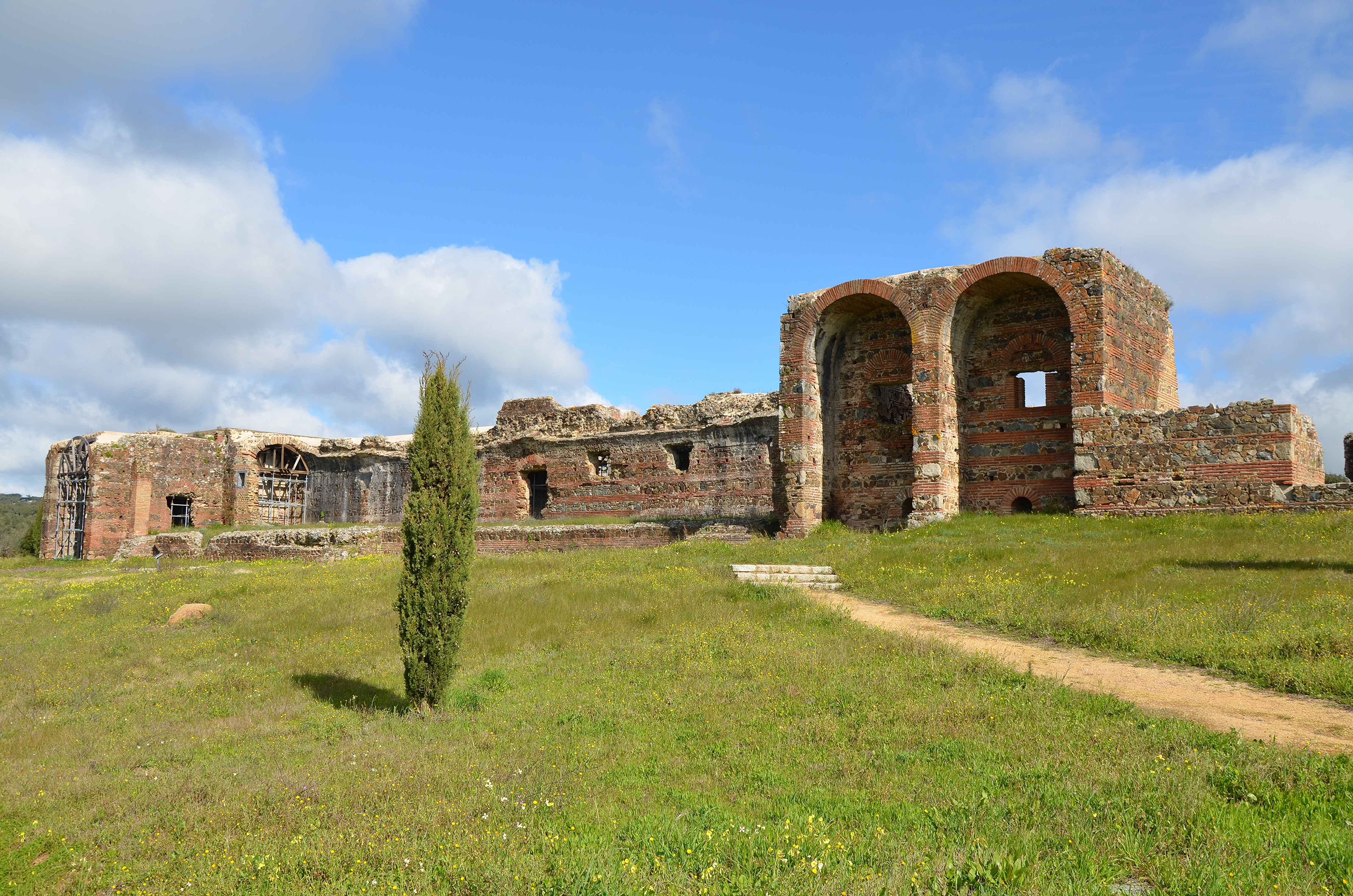 The Roman ruins of São Cucufate, with the principal elevation of the villa Áulica, Portugal Roman Ruins of São Cucufate